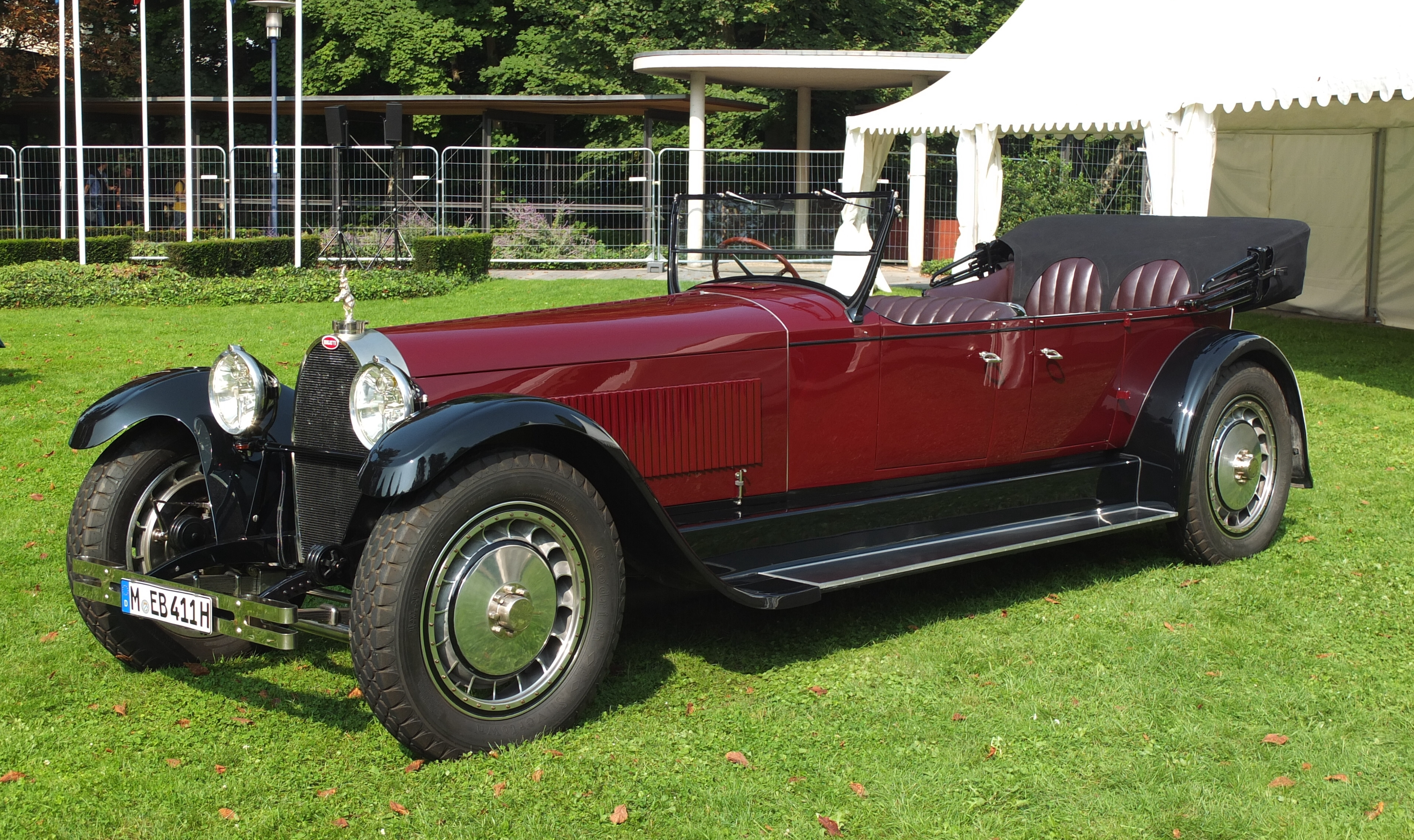 1926 Bugatti Type 41 "Packard Prototype" Recreation, seen at Concours d'Élégance in Mondorf-les-Bains, Luxembourg. Image of the day in Wikipédia France, Oct. 4, 2017